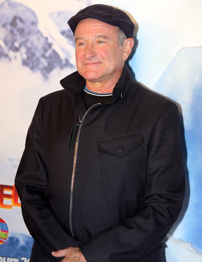 Happy Feet Two Australian premiere with Robin Williams and George Miller at Entertainment Quarter in Sydney, Australia